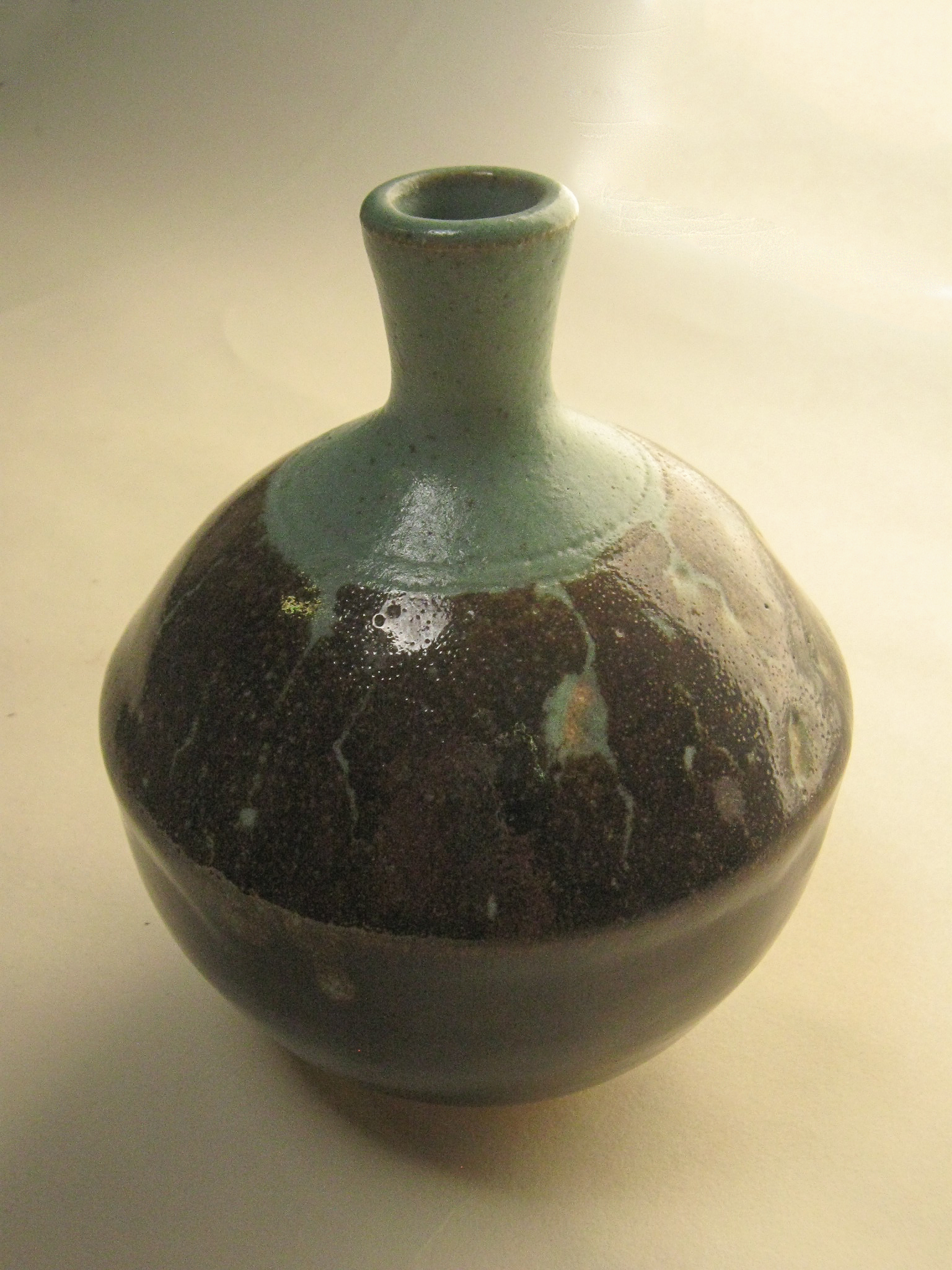 Two-tone pottery bottle by Ian Sprague; photographed in a private collection at Enfield Victoria